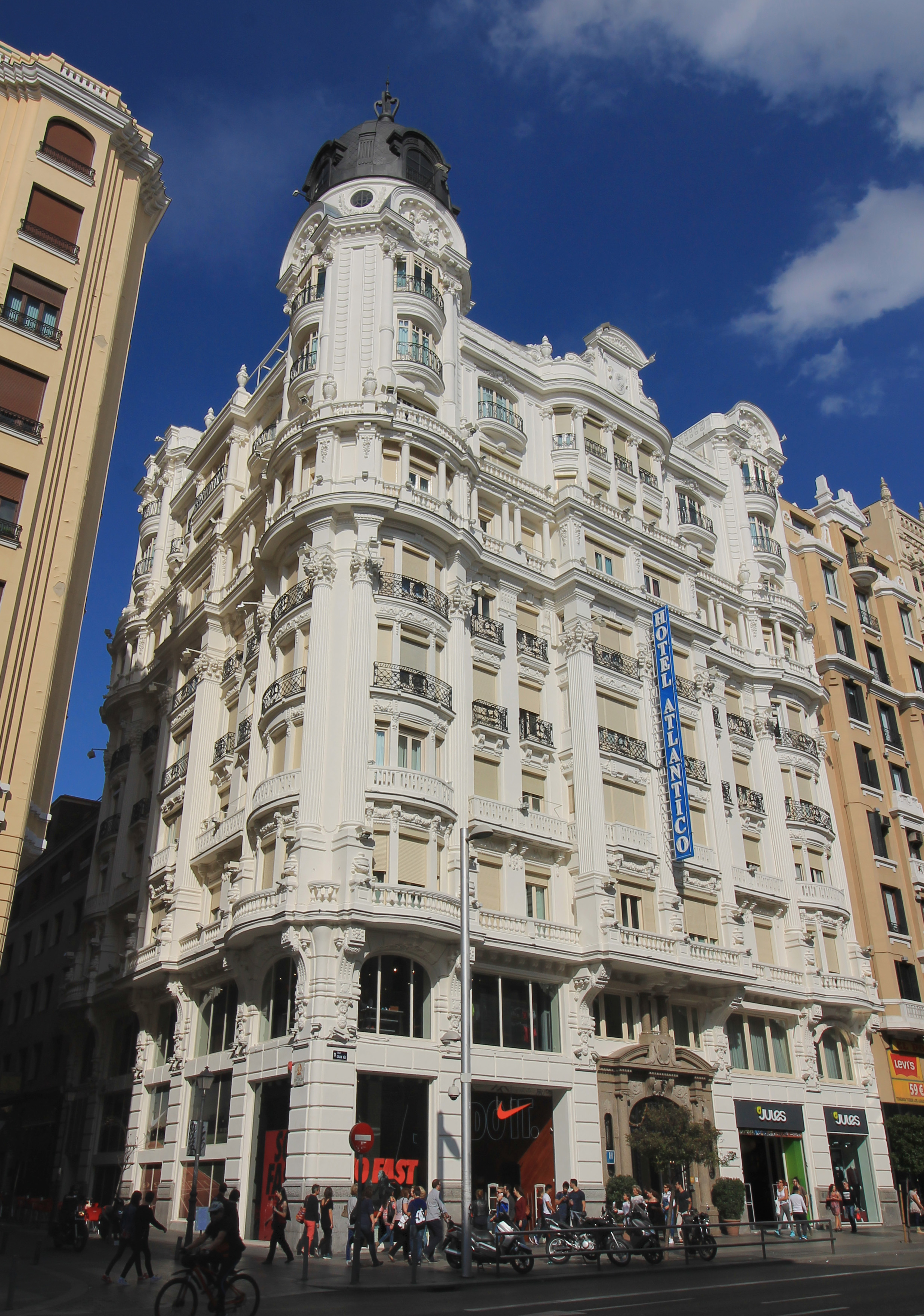 Façade of Hotel Atlántico in Madrid (Spain).